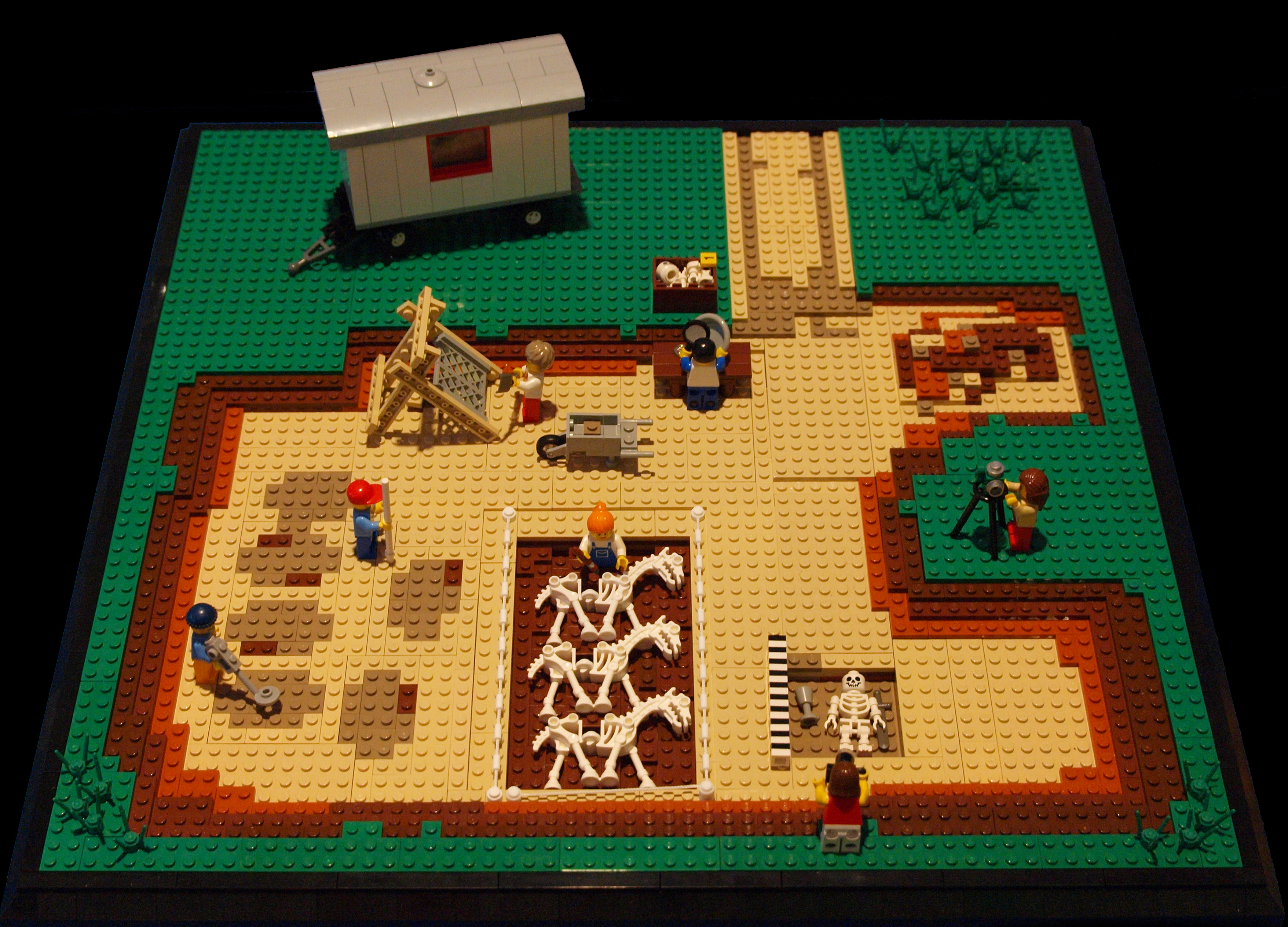 The archaeological excavation of the saxon Wulfsen horse burial site as a LEGO miniature. Built by Andreas Haase, Usingen, Germany. Photographed at Archäologisches Museum Hamburg, Hamburg, Germany.